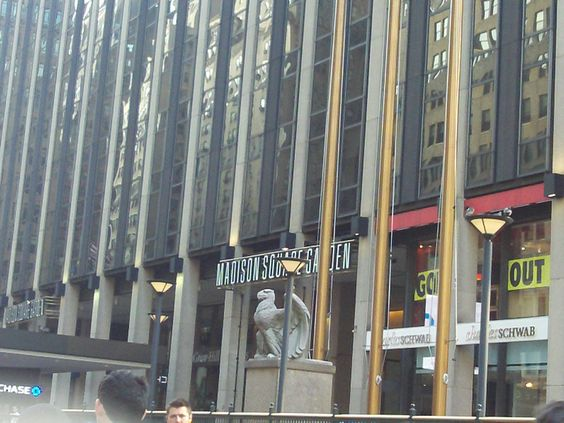 MSG as it appeared in 2011